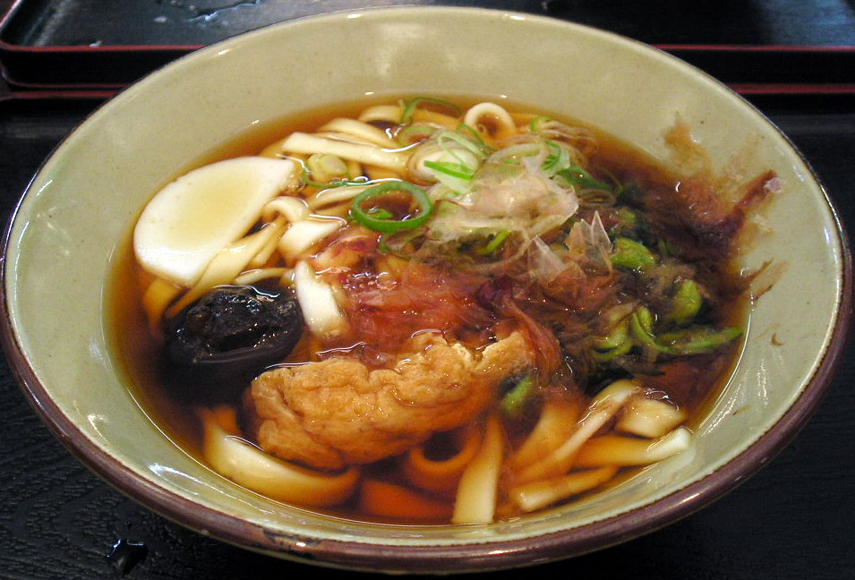 Kishimen is traditionally served at the Atsuta Shrine. The noodles are flat and smooth in texture, excellently complimented by abura-age (deep fried tofu), assorted green vegetables, dried bonito shavings, and seasoned with tsuyu (light soy sauce).